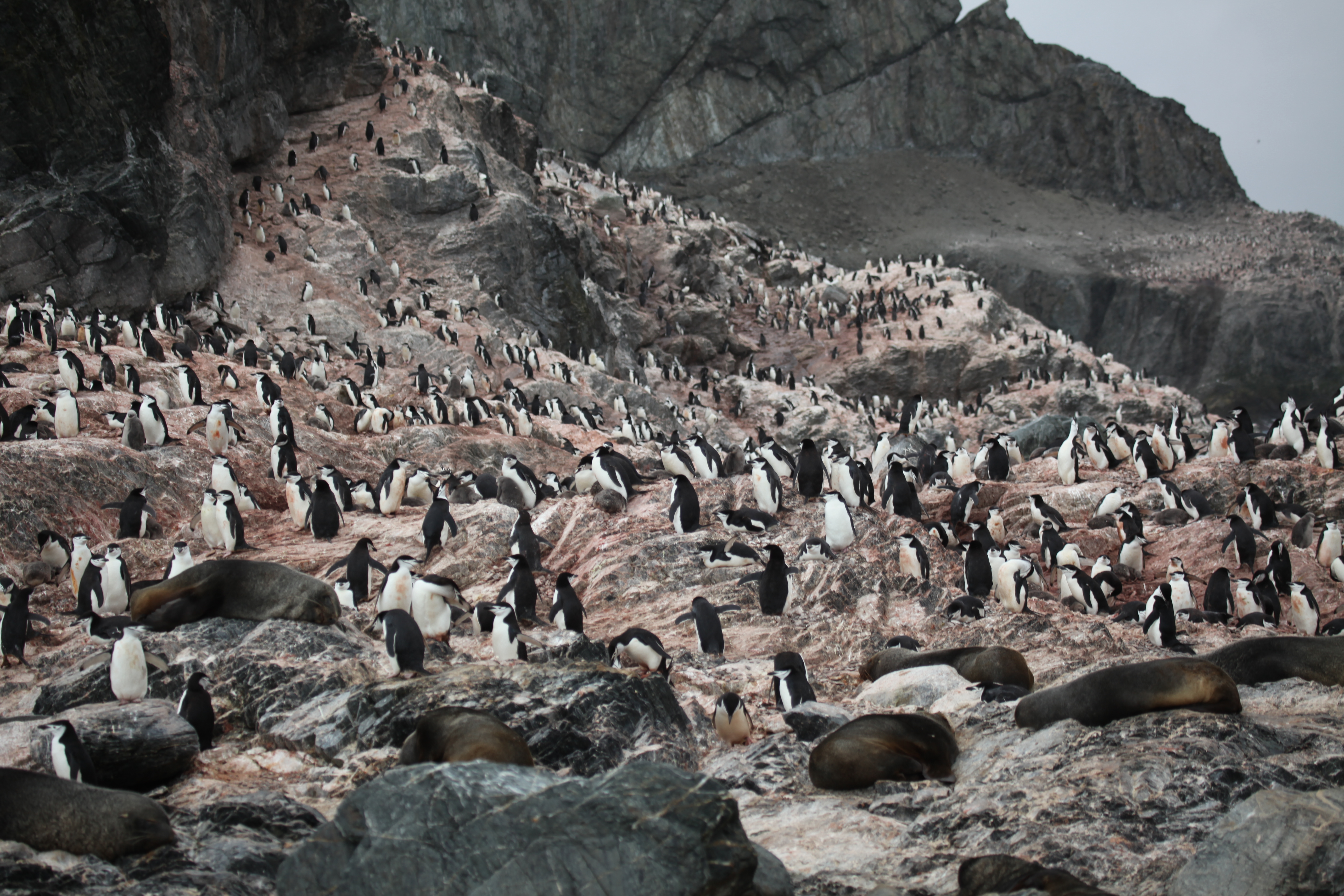 In the South Shetland Islands, Antarctica.